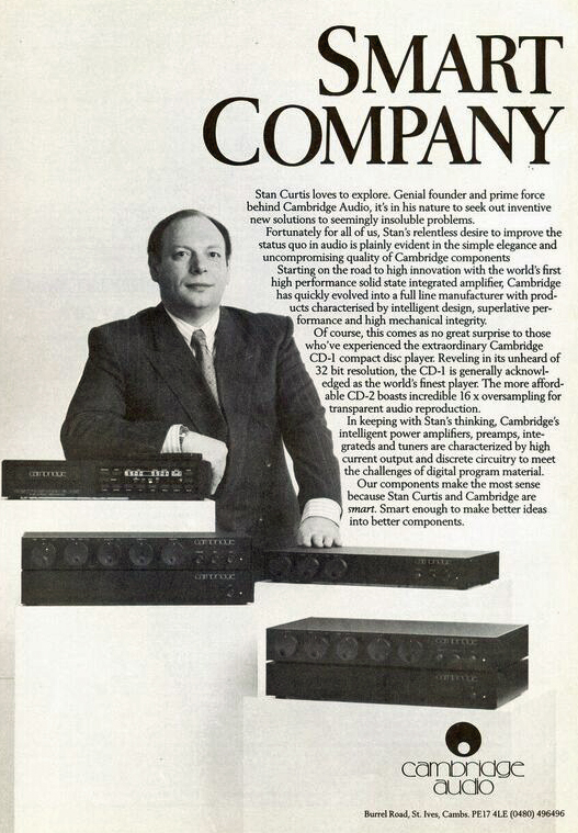 early CD1 advert featuring Stan Curtis